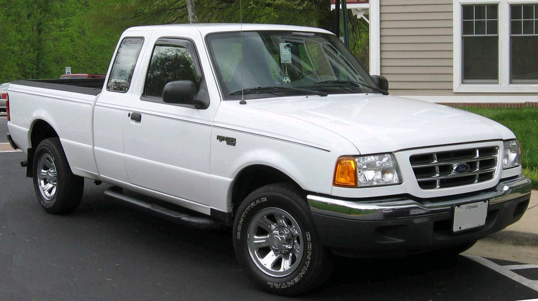 2001-2003 Ford Ranger photographed in Kensington, Maryland, USA.